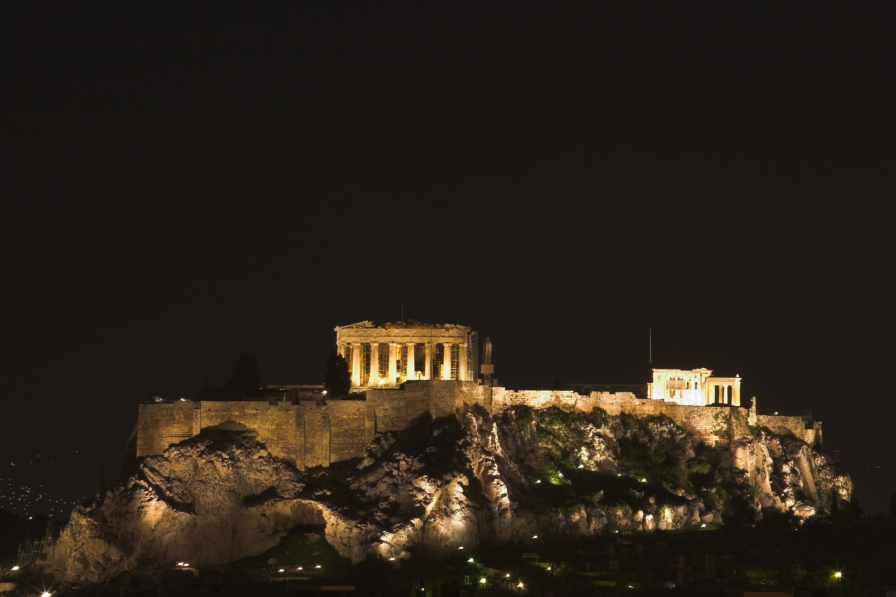 Image of Acropolis hill and Parthenon at night. Photo by Thermos.